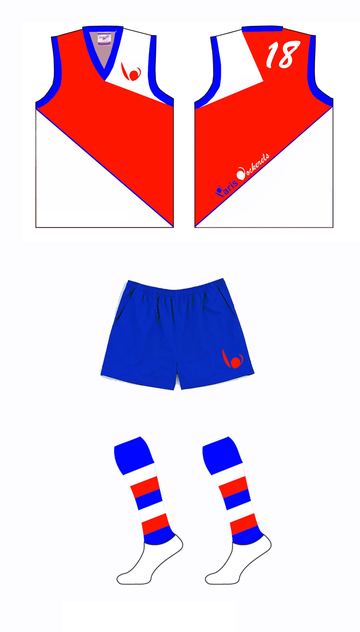 jumpers shorts and socks of the Paris australian football team, the Cockerels.